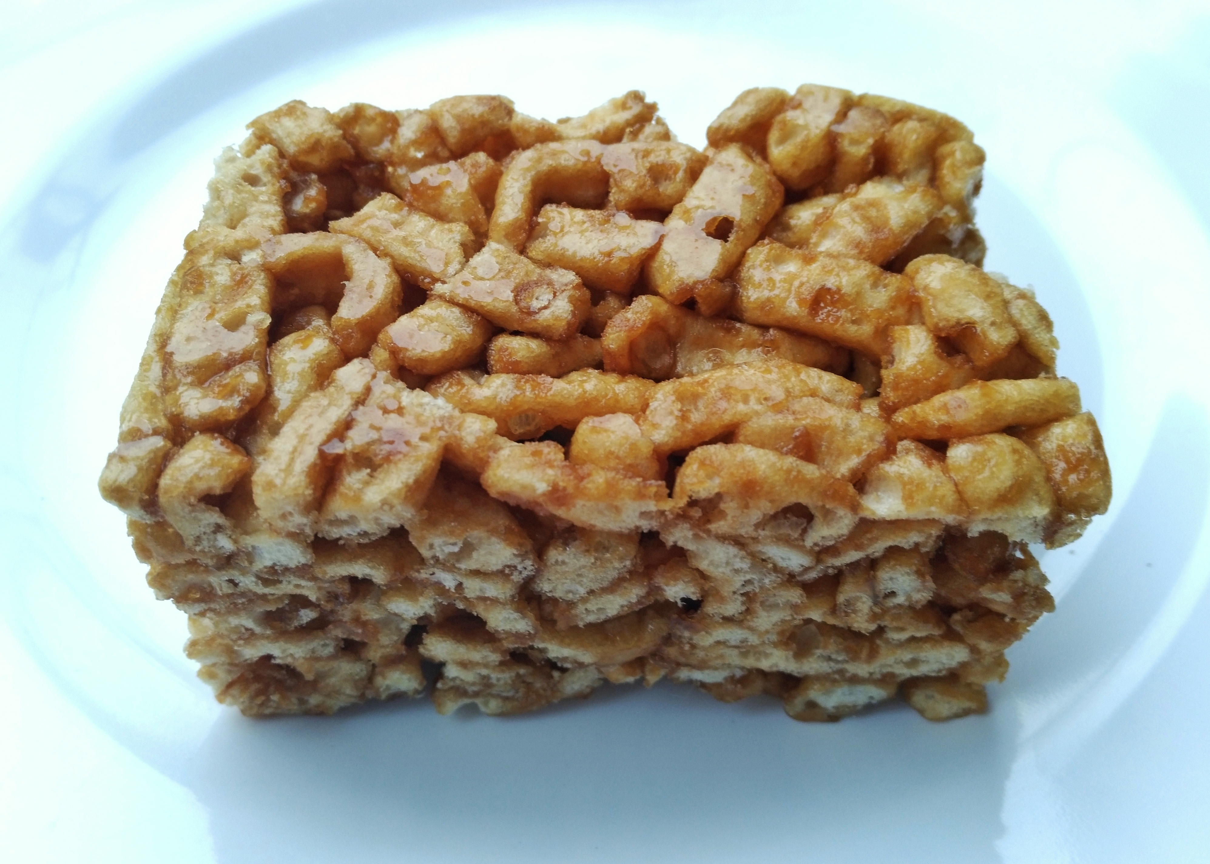 Sacima ᠮᠠᠨᠵᡠ: ᠰᠠᠴᡳᠮᠠ